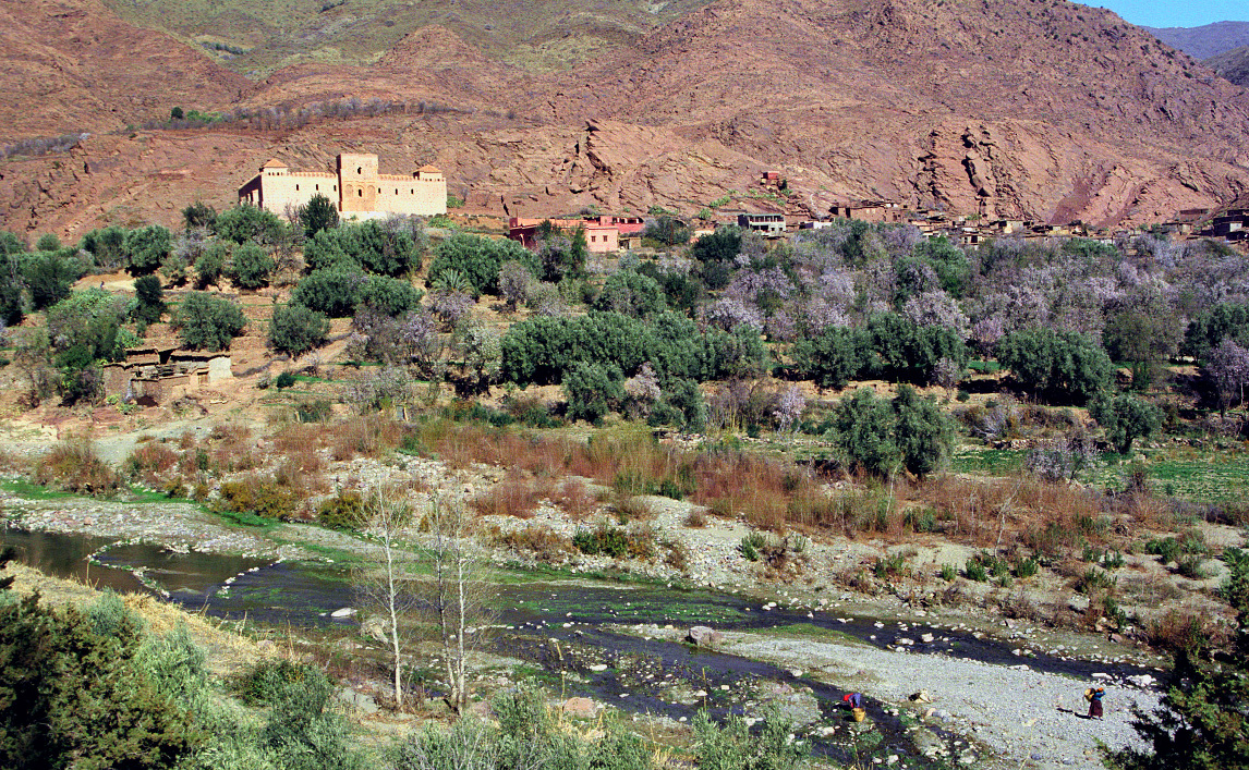 Tinmel (or Tin Mal) Mosque, in the High Atlas mountains, 100 km South of Marrakech